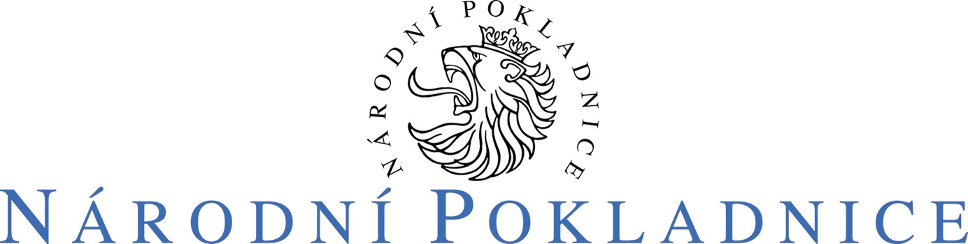 Logo Národní Pokladnice